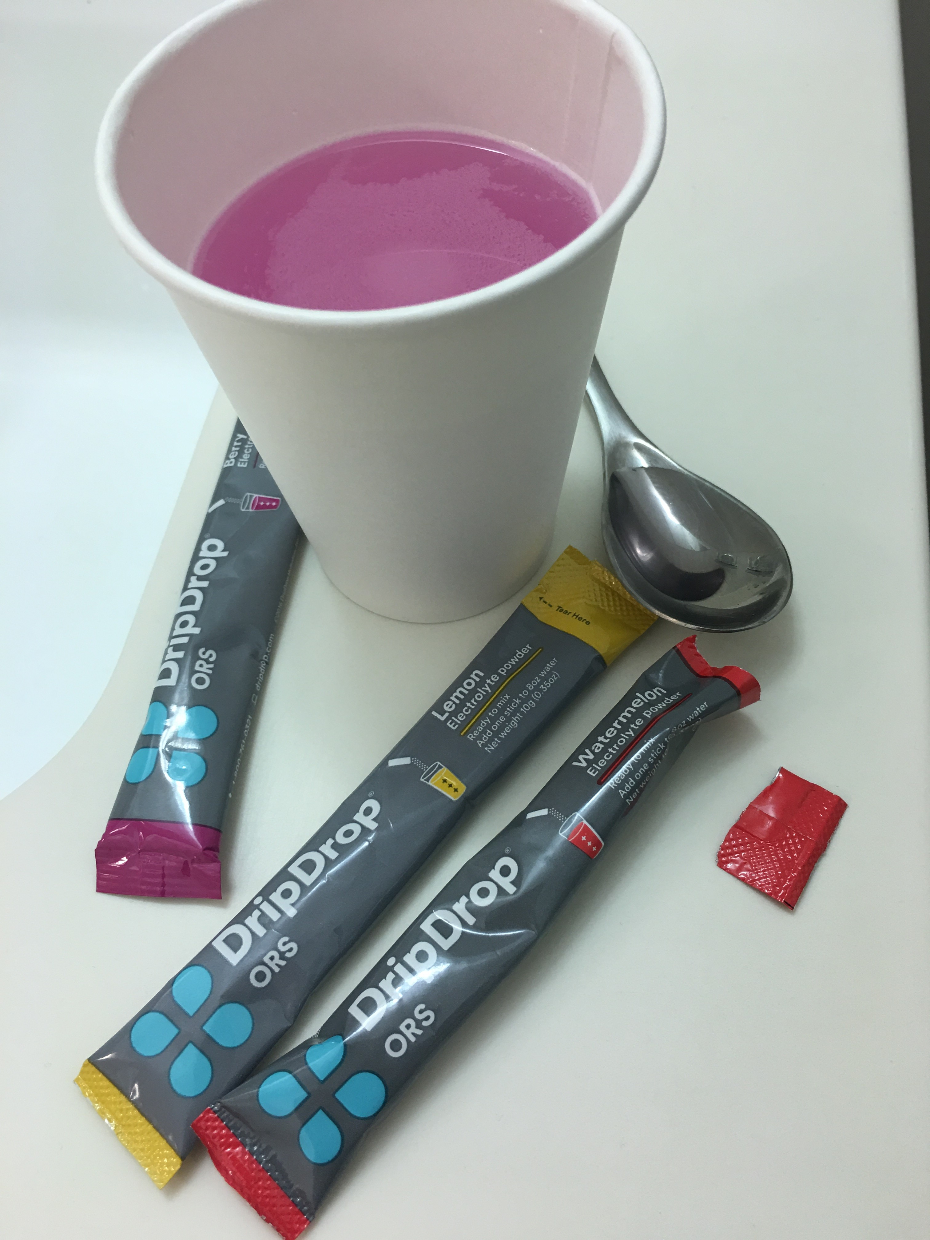 Three flavor packets of DripDrop ORS, a commercially available Oral Rehydration Therapy product, next to a recently mixed cup of watermelon flavored DripDrop.